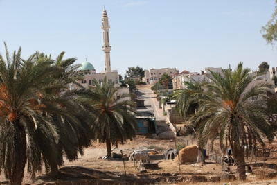 Wildlife and Plants of Israel